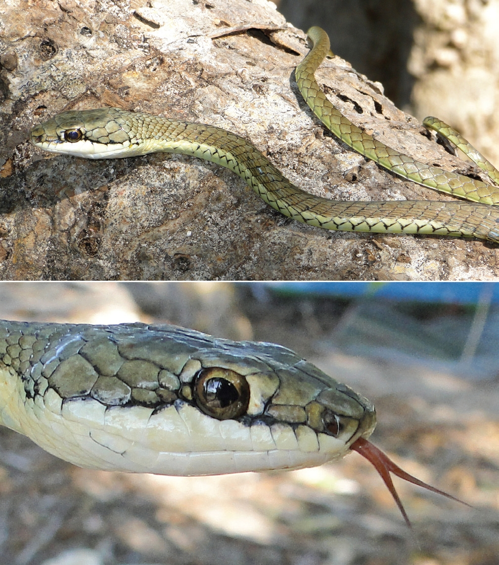 Dendrelaphis inornatus timorensis. Male (USNM [CMD 493], SVL 689 mm, TL 1054 mm) from Loré 1 Village, Lautém District.